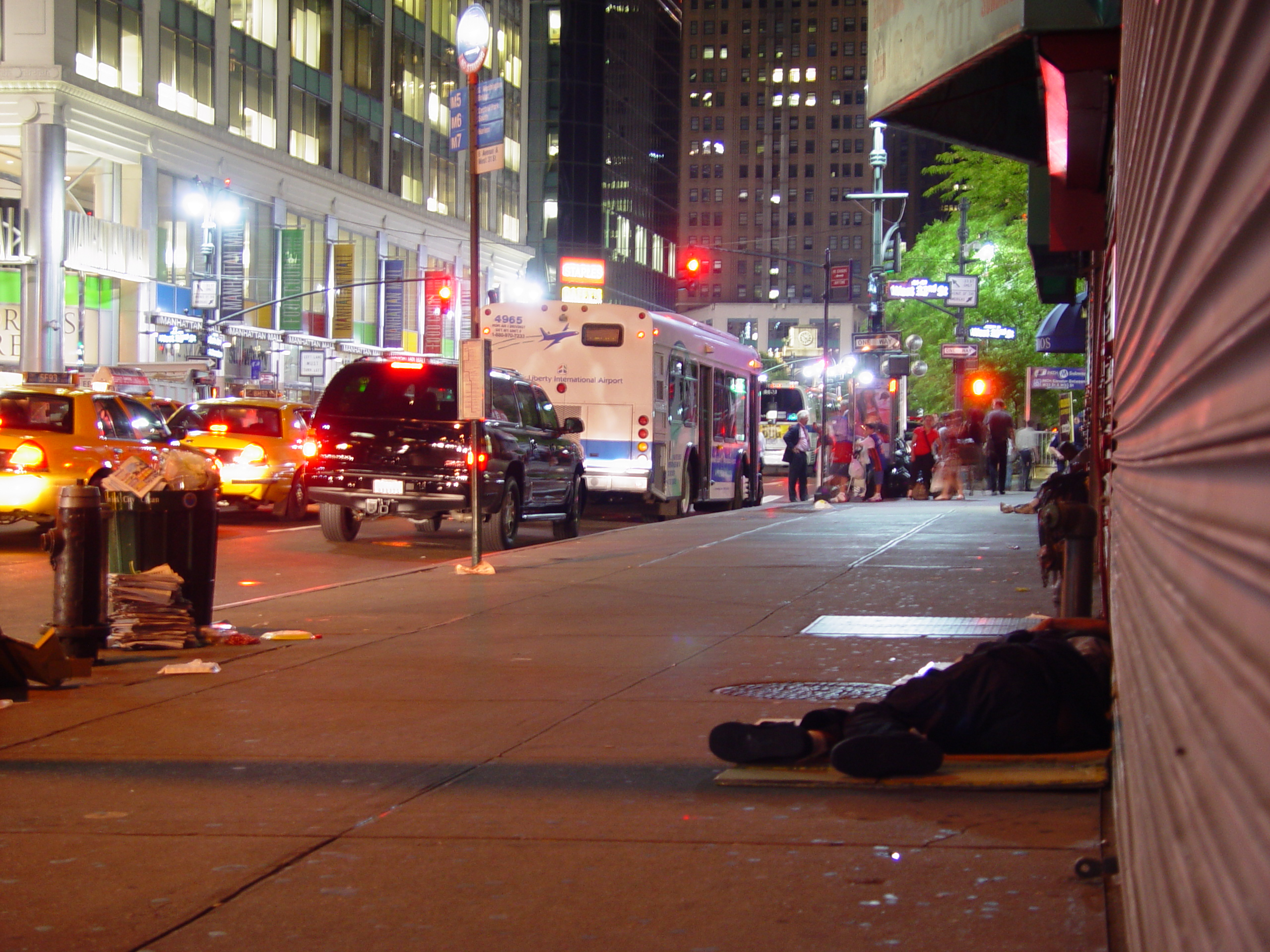 Homeless man sleeping on the street two blocks from the Republican National Conventionv